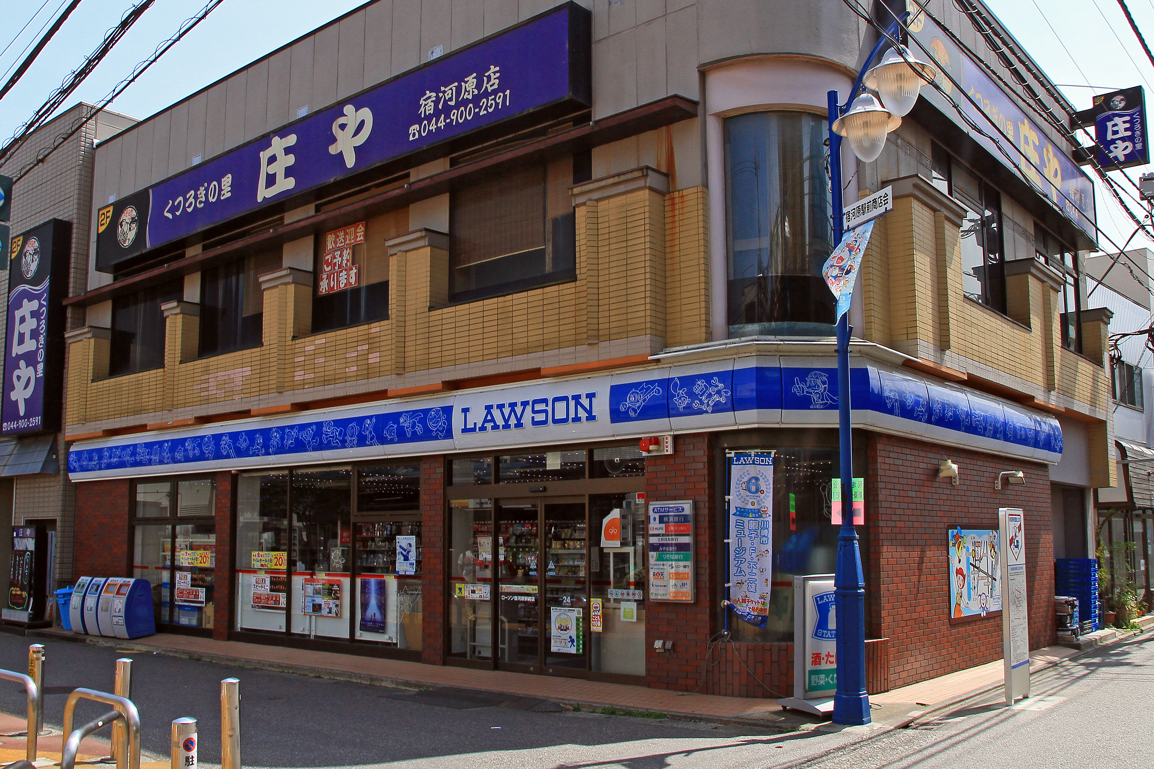 Lawson store Shukugawara Station Tama Ward, Kawasaki, Kanagawa, Japan